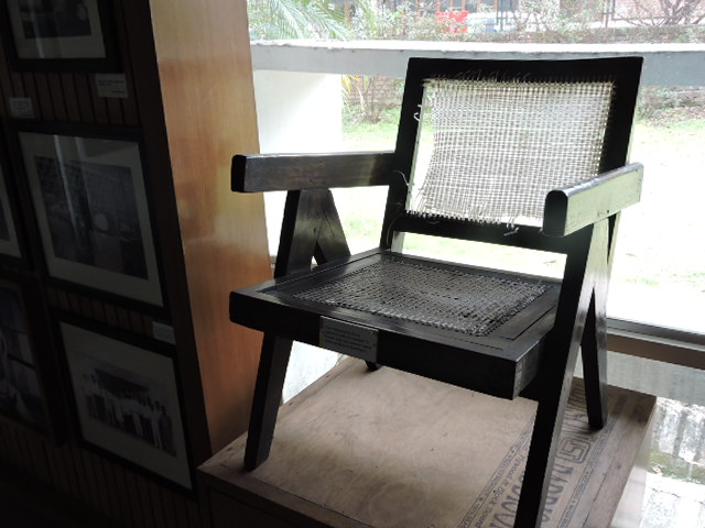 Low cost woden furiture designed by Pierre Jeanneret with Le Corbusier Swiss-born architects, file photo at Le Corbusier centre Chandigarh